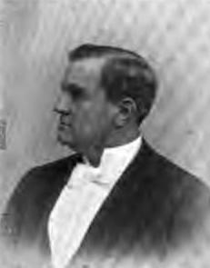 Portrait of New York state treasurer Addison B. Colvin